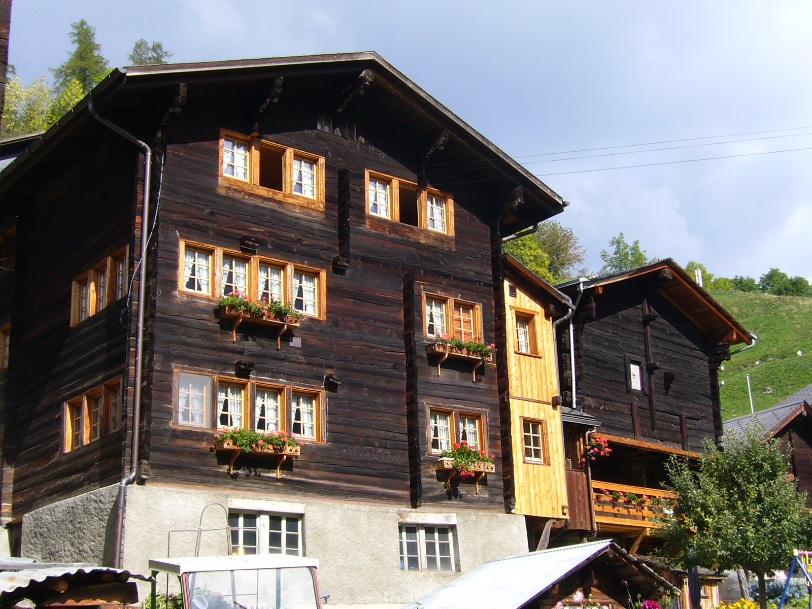 Old house in the village of Niederwald, canton of Vallais, Switzerland. Picture taken by Peter Berger, September 30, 2006.